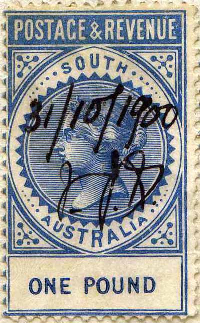 1896 £1 revenue stamp of South Australia used 1900.